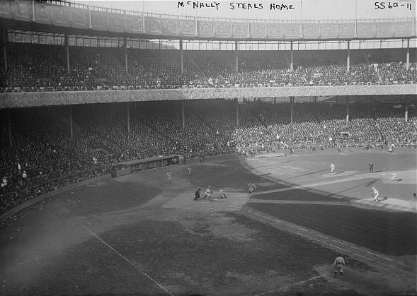 Infielder Mike McNally steals home during Game 1 of the 1921 World Series at the Polo Grounds. Cropped from original image from the Library of Congress.